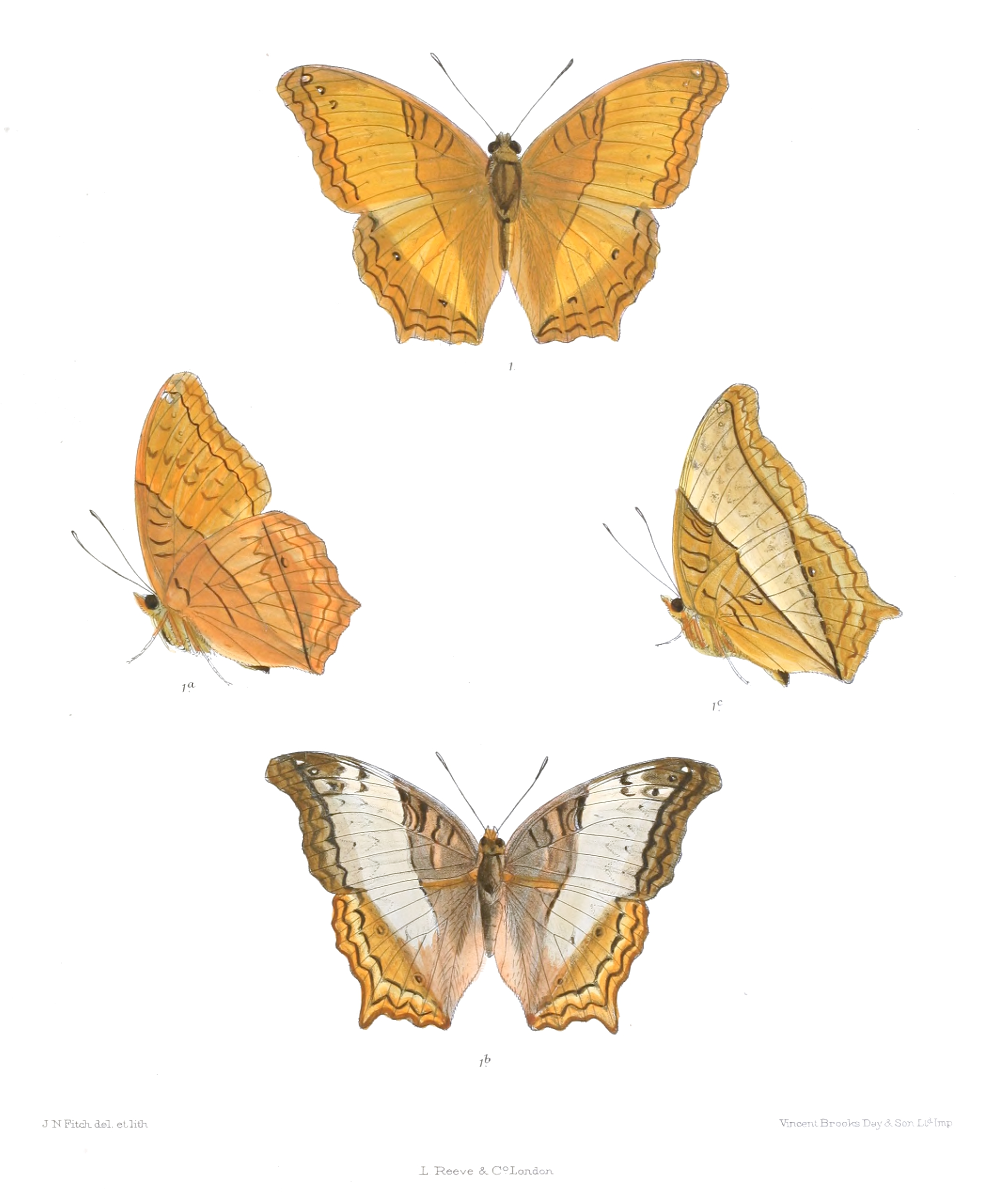 Cynthia erota = Vindula erota (dry season form)